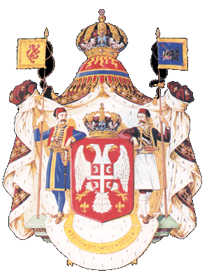 House of Karađorđević Coat of arms